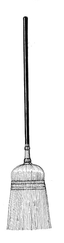 Broom